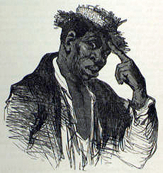 Description: Part-page illustration for page 56 of Uncle Tom's Cabin; or, Life Among the Lowly, by Harriet Beecher Stowe: New Edition, with Illustrations (Boston: Houghton, Mifflin and Company; The Riverside Press, Cambridge, 1888). [Originally published in England in 1853, in Uncle Tom's Cabin; or, Life Among the Lowly: A Tale of Slave Life in America. With above One Hundred Fifty Illustrations by George Thomas, Esq., and T. R. Macquoid, Esq., and Engraved by William Thomas, Esq. (London: Nathaniel Cooke, 1853).] Sam. Clifton Waller Barrett Collection, University of Virginia. Source: Modified version of this public domain image from Uncle Tom's Cabin and American Culture, a Multi-Media Archive at Portion: Reduced from original size so it is no longer suitable for reproduction. Purpose: To illustrate the novel Uncle Tom's Cabin, of which this illustration forms a vital part of the novel's publication history.